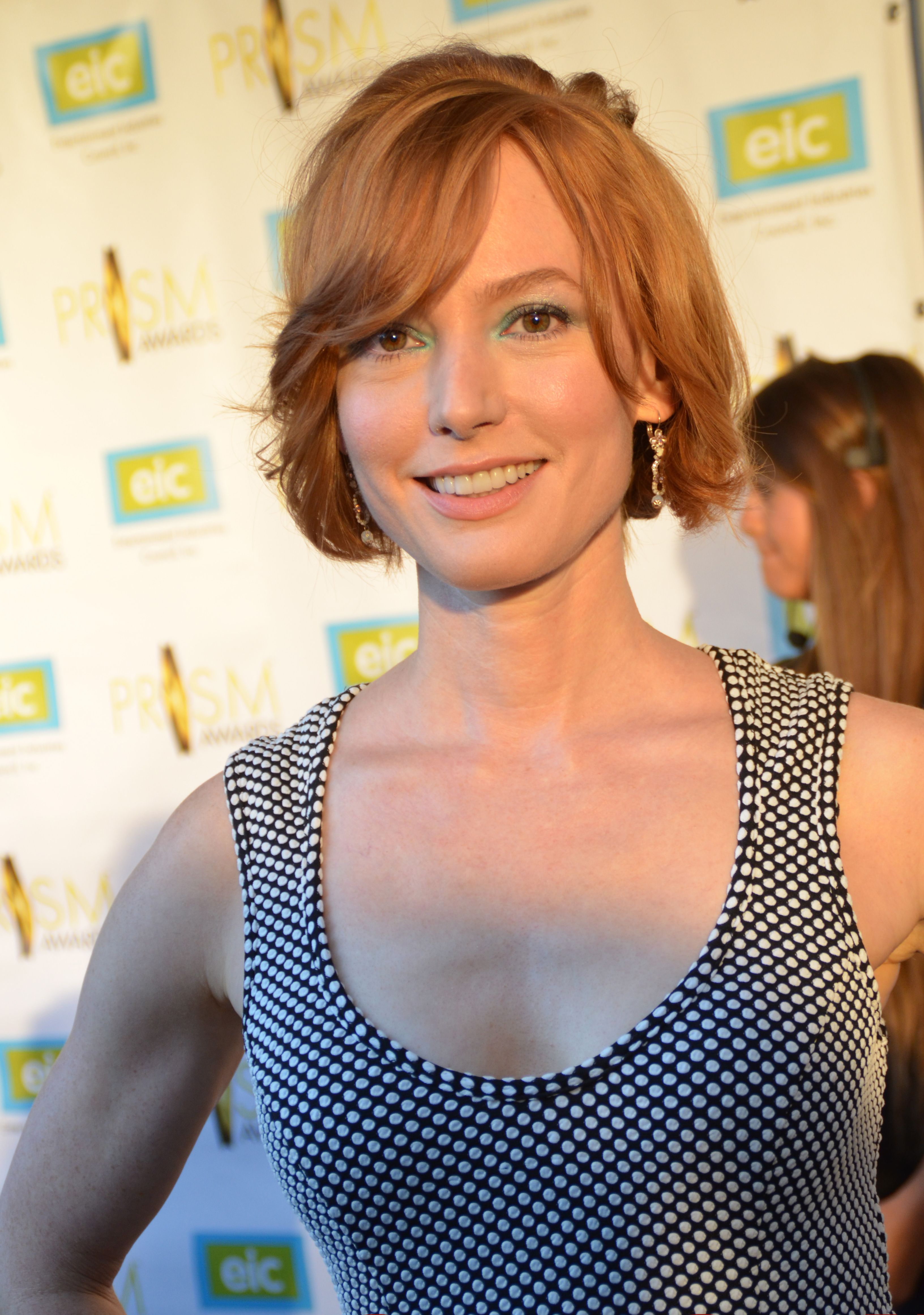 Mingle Media TV and Red Carpet Report host Jackie Powell were invited to cover the 18th Annual PRISM Awards at the Skirball Cultural Center honoring writers, producers, directors, and actors for their authentic depictions of mental health and substance use issues. Get the Story from the Red Carpet Report Team, follow us on Twitter and Facebook at: Follow our host Jackie Powell on Twitter at